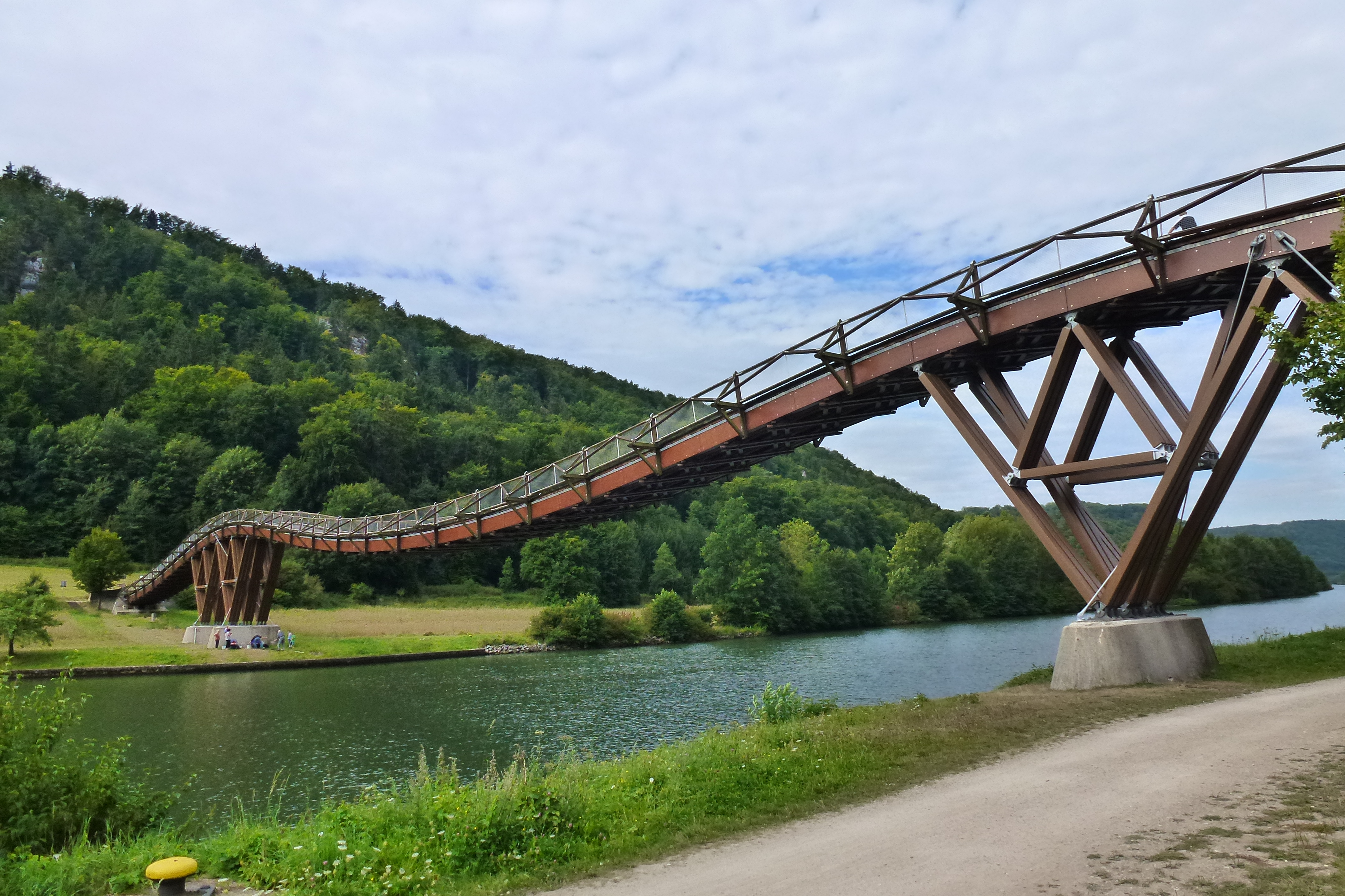 Bike bridge over Rhine–Main–Danube Canal, near Essing, Bavaria, Germany